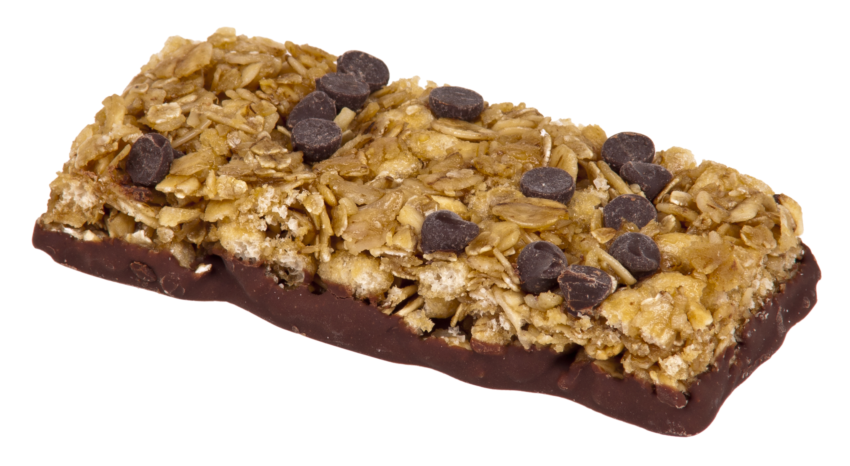 A chewy chocolate chip granola bar made by Keebler.